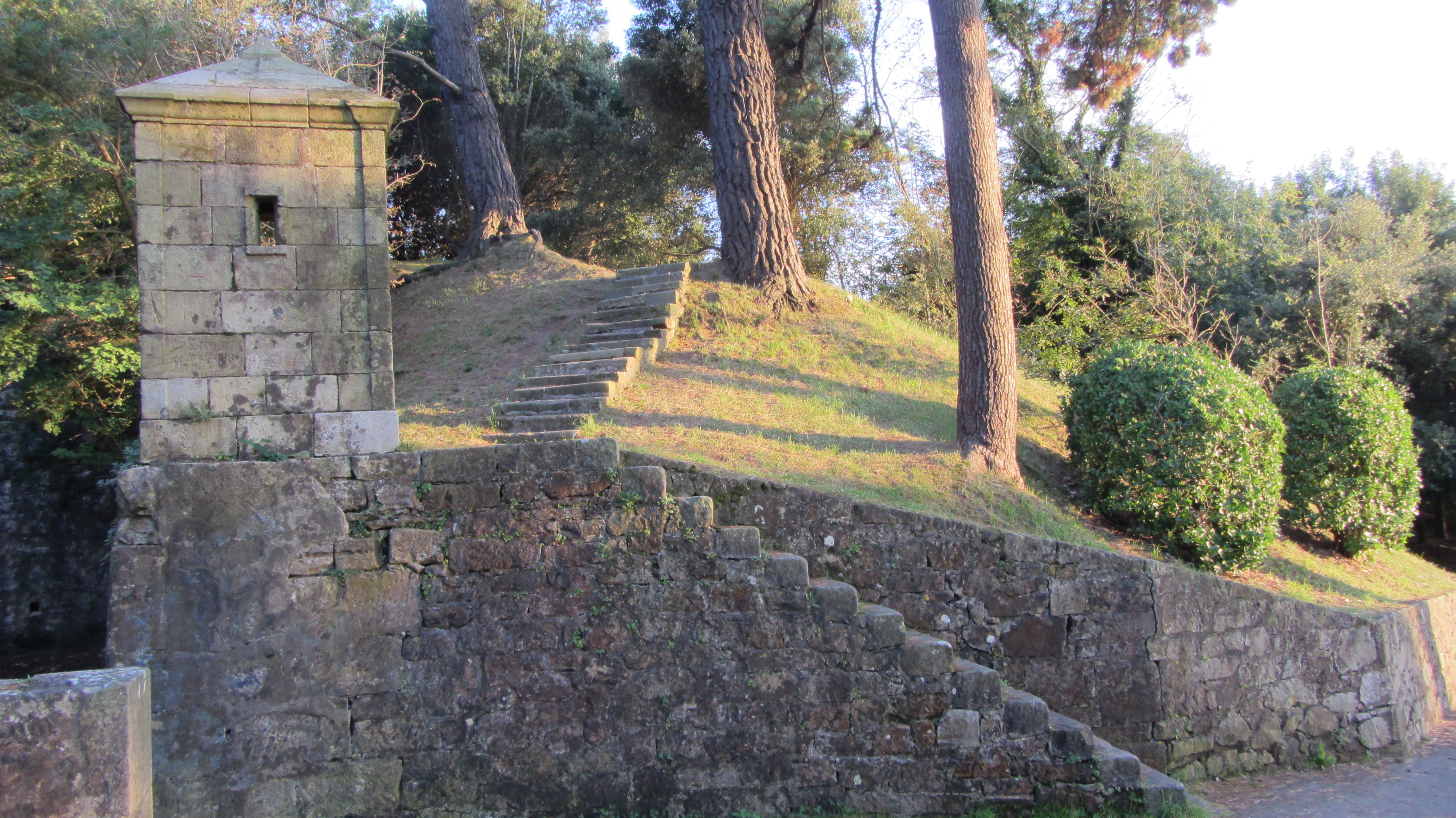 Stone stairs to access the Mota Castle on Mount Urgull, San Sebastián (Spain).